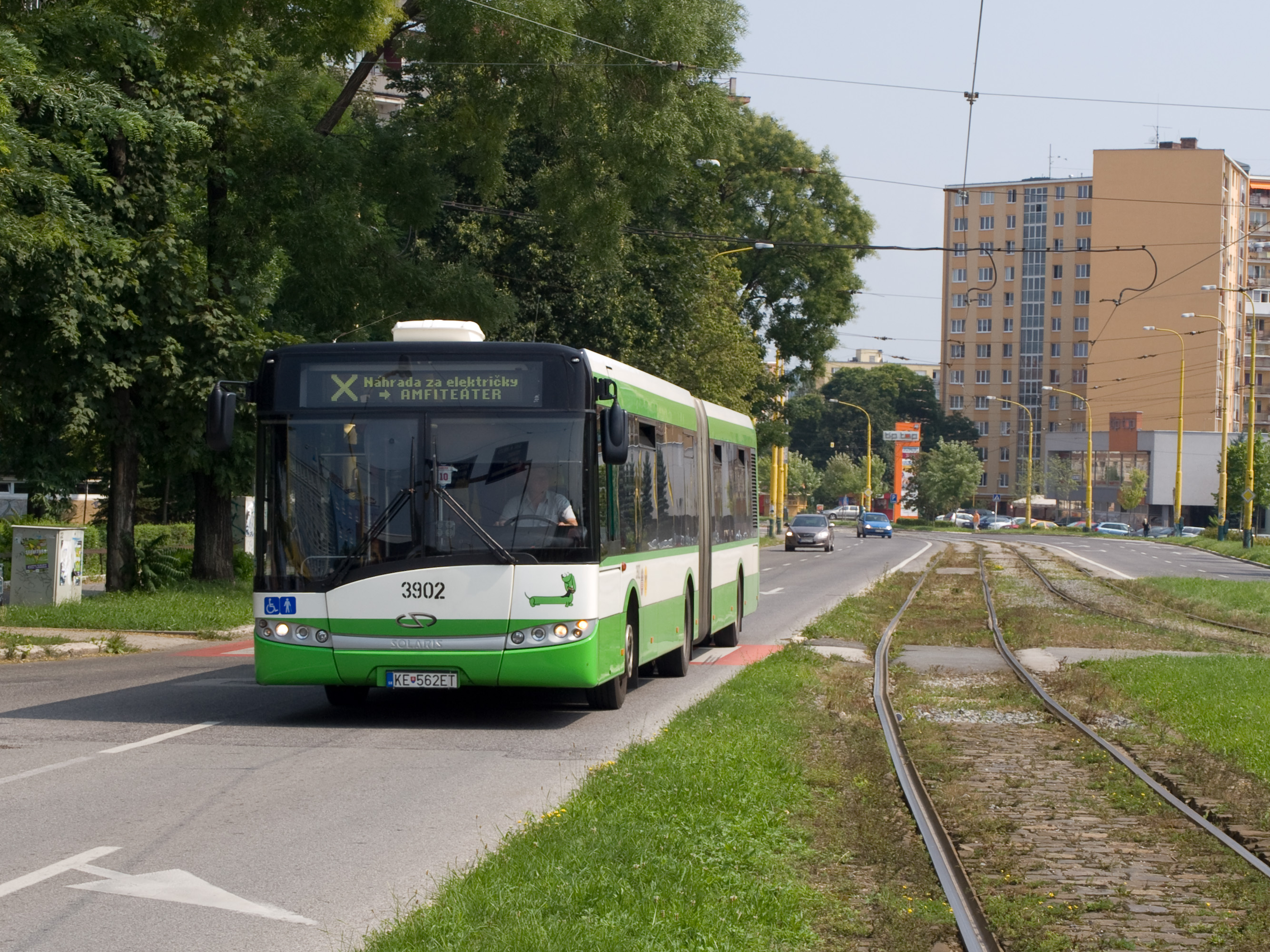 Solaris Urbino 18 Mk3 registration # 3902 at line X between Radnica Starého města and Amfiteáter. Built 2005, DP Košice operator.